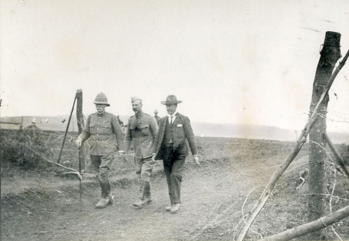 KWAZULU-NATAL, SOUTH AFRICA - December 1907: Colonel Sir Duncan McKenzie, Colonel Leighton (Durban Light Infantry) and Mr Armstrong (magistrate at Nongoma), passing through the entrance of the laager at Nongoma. It was here that Dinizulu surrendered.